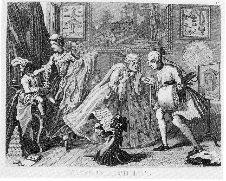 Copper-engraving in reduced shape of William Hogarth's "Taste in High Life".